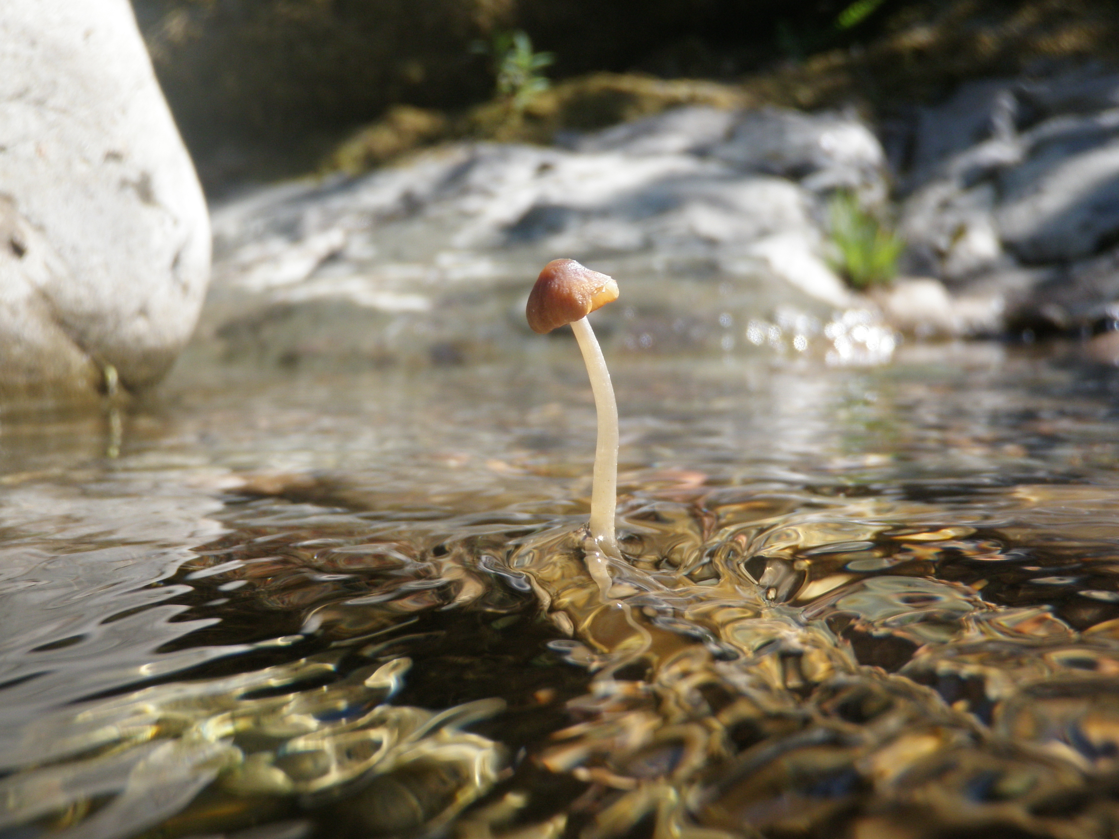 Fruit body of some Psathyrella species. Specimen photographed in Fall Creek, Lane Co., Oregon, USA. See Mushroom Observer page for more extensive collection notes.